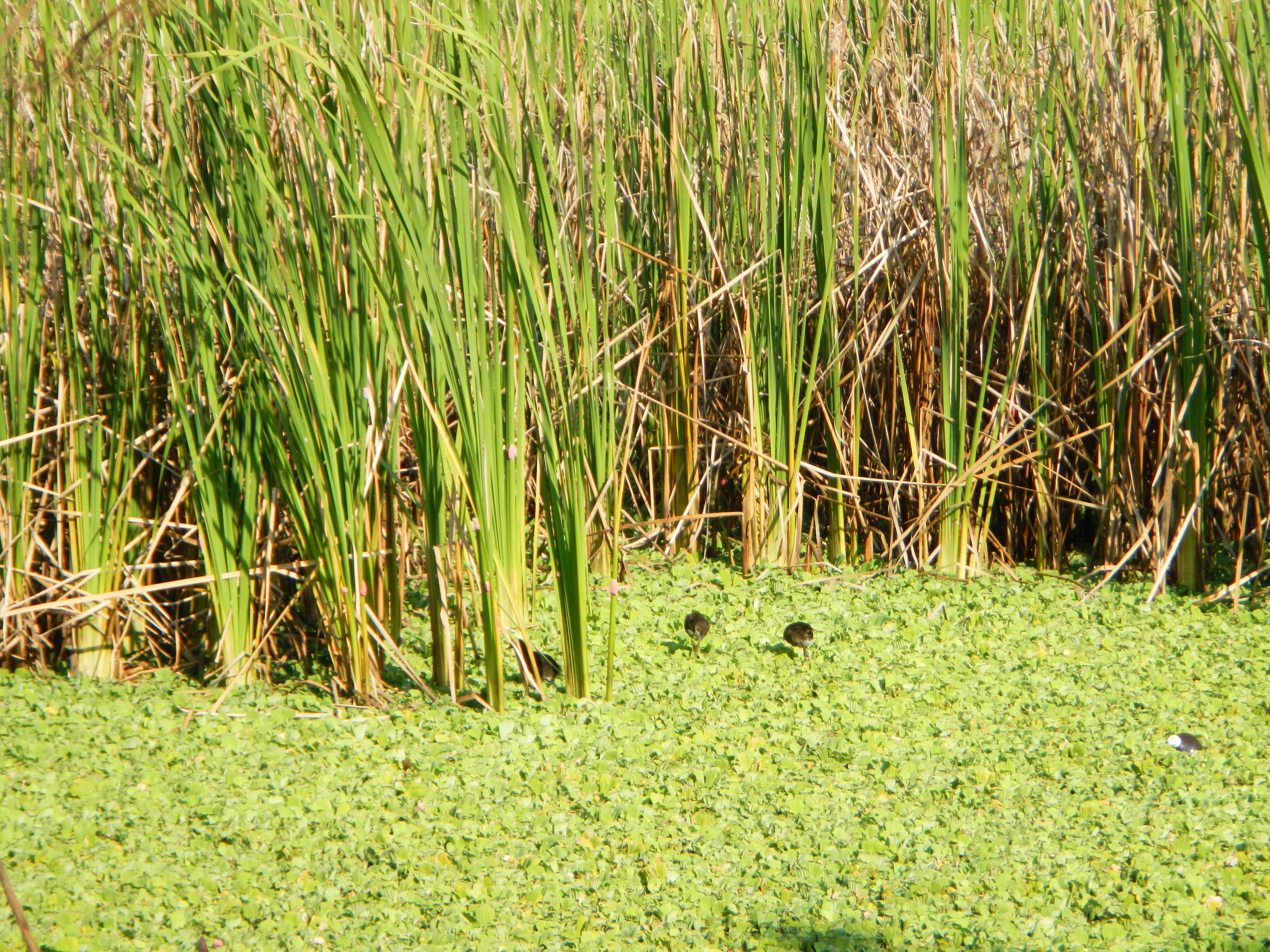 Kiapo / Quiapo / Pistia stratiotes / Water cabbage: Philippine water cabbage, water lettuce, Nile cabbage, or shellflower[1] with Tikling at Paombong, Bulacan[2]